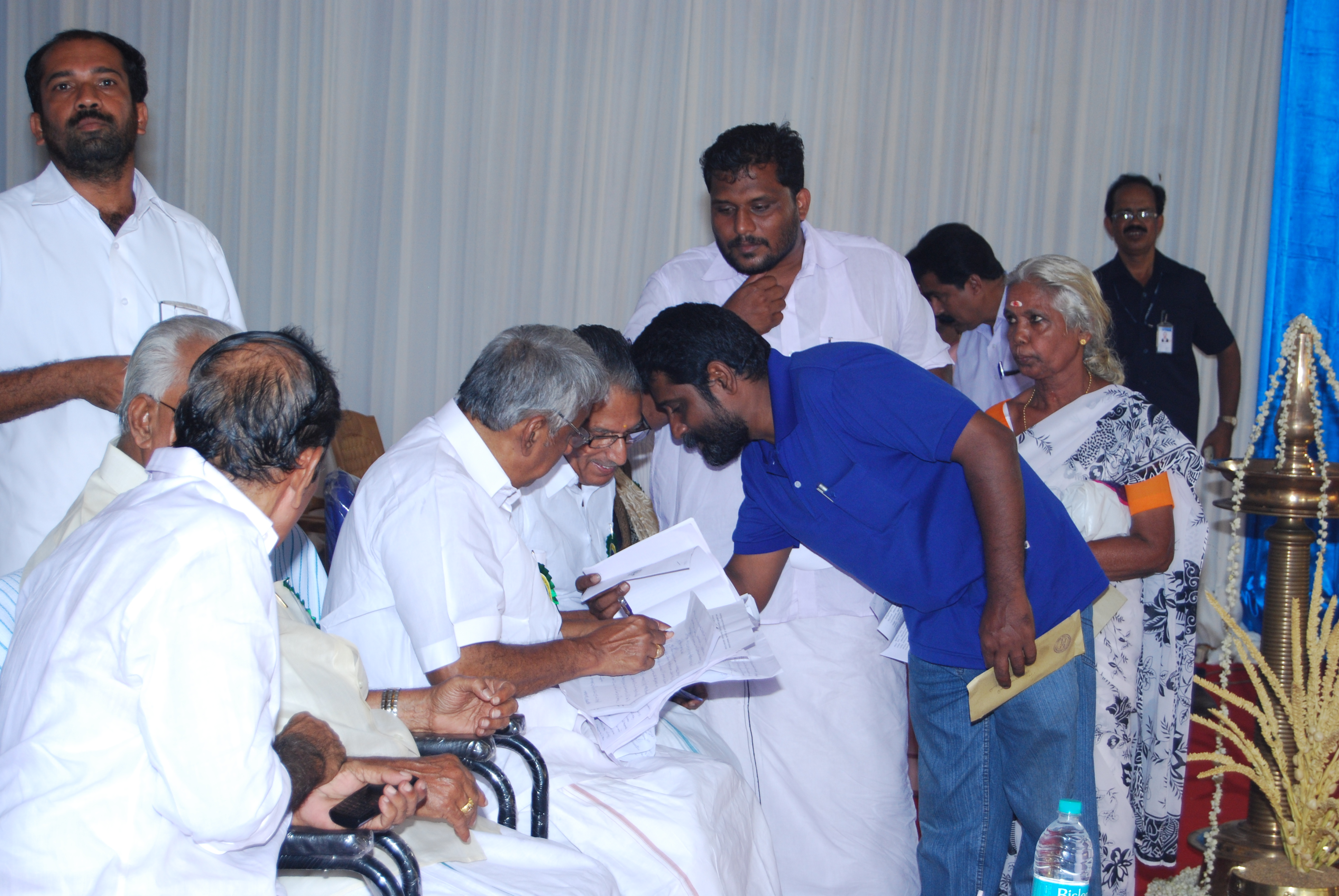 Oommen Chandy receives memorandum about S.R.V school termination from Sathish Kalathil at the function of Muthuvara Puzhakkal Library platinum jubilee celebration.